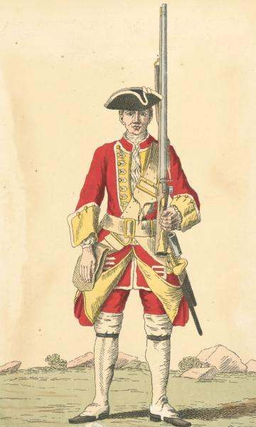 Soldier of the 28th regiment (1742)